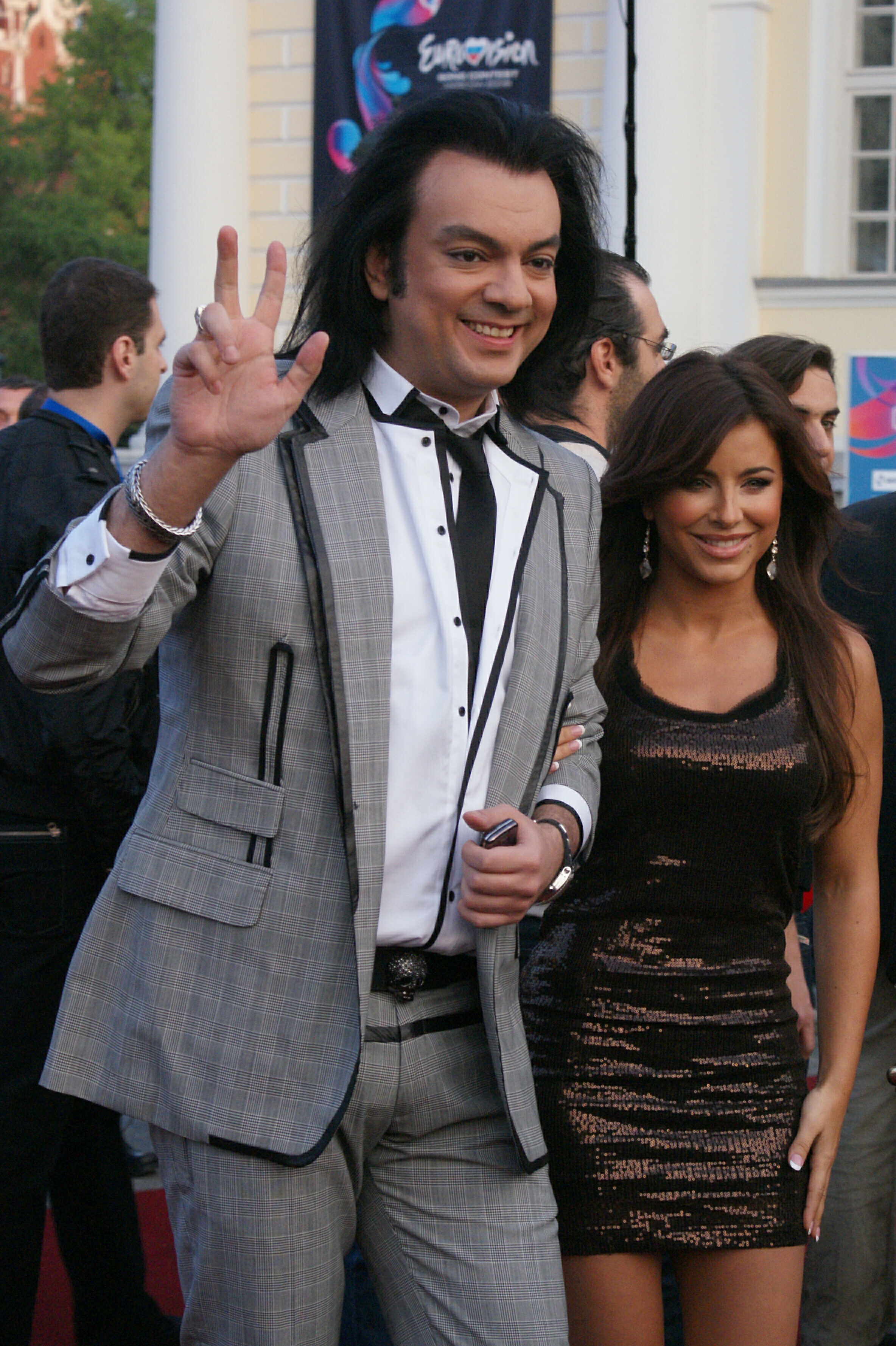 Ani Lorak and Philipp Kirkorov in Moscow